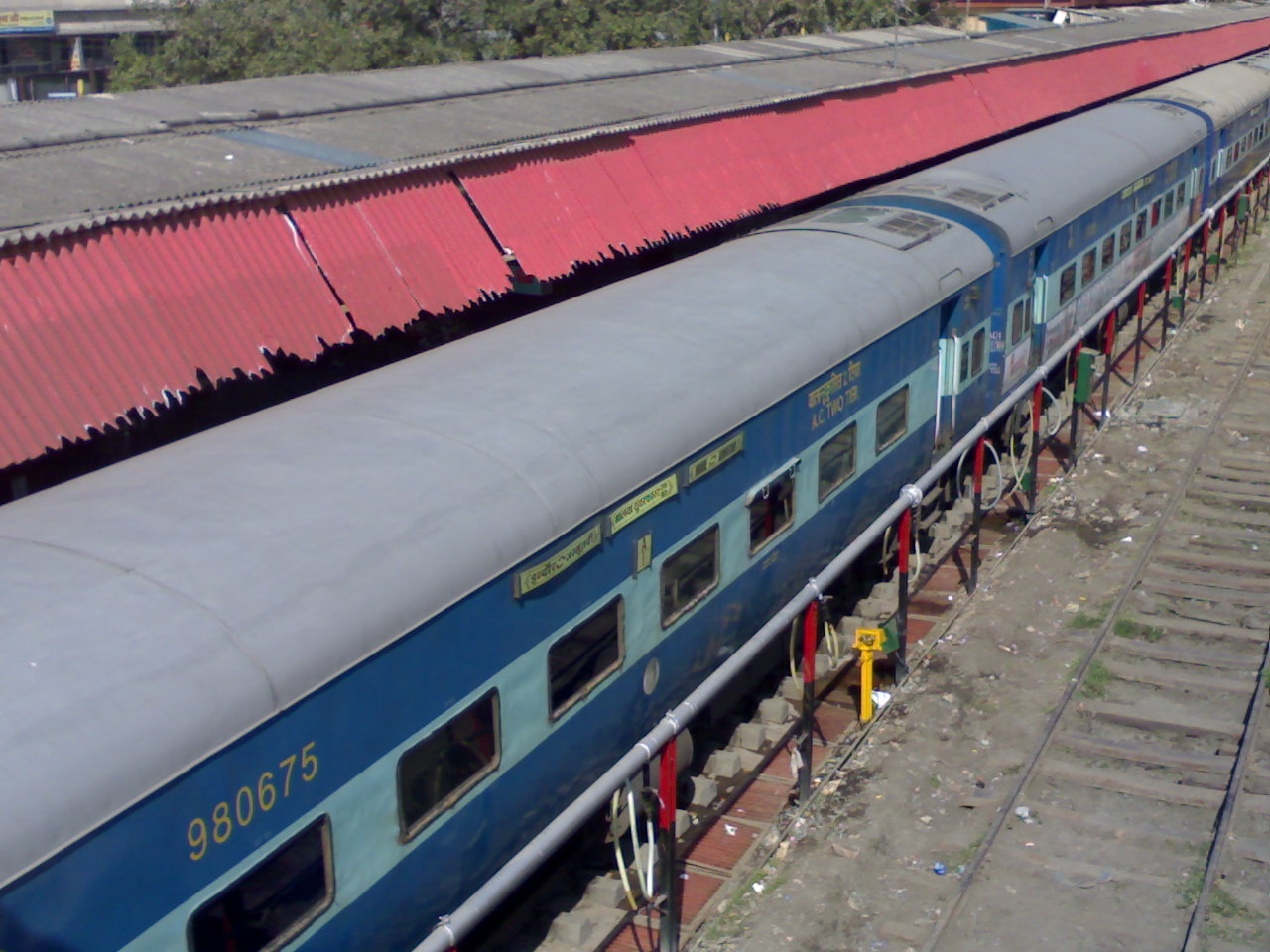 Malwa Express at Indore Junction